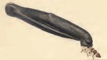 Stainton’s Natural History of the Tineina (1855–1873): Coleophora paripennella larval case